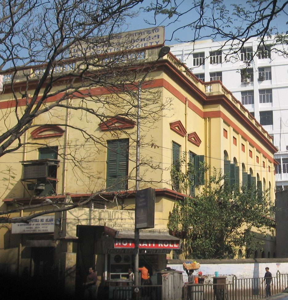 Old Building of Asiatic Society on Mother Teresa Society